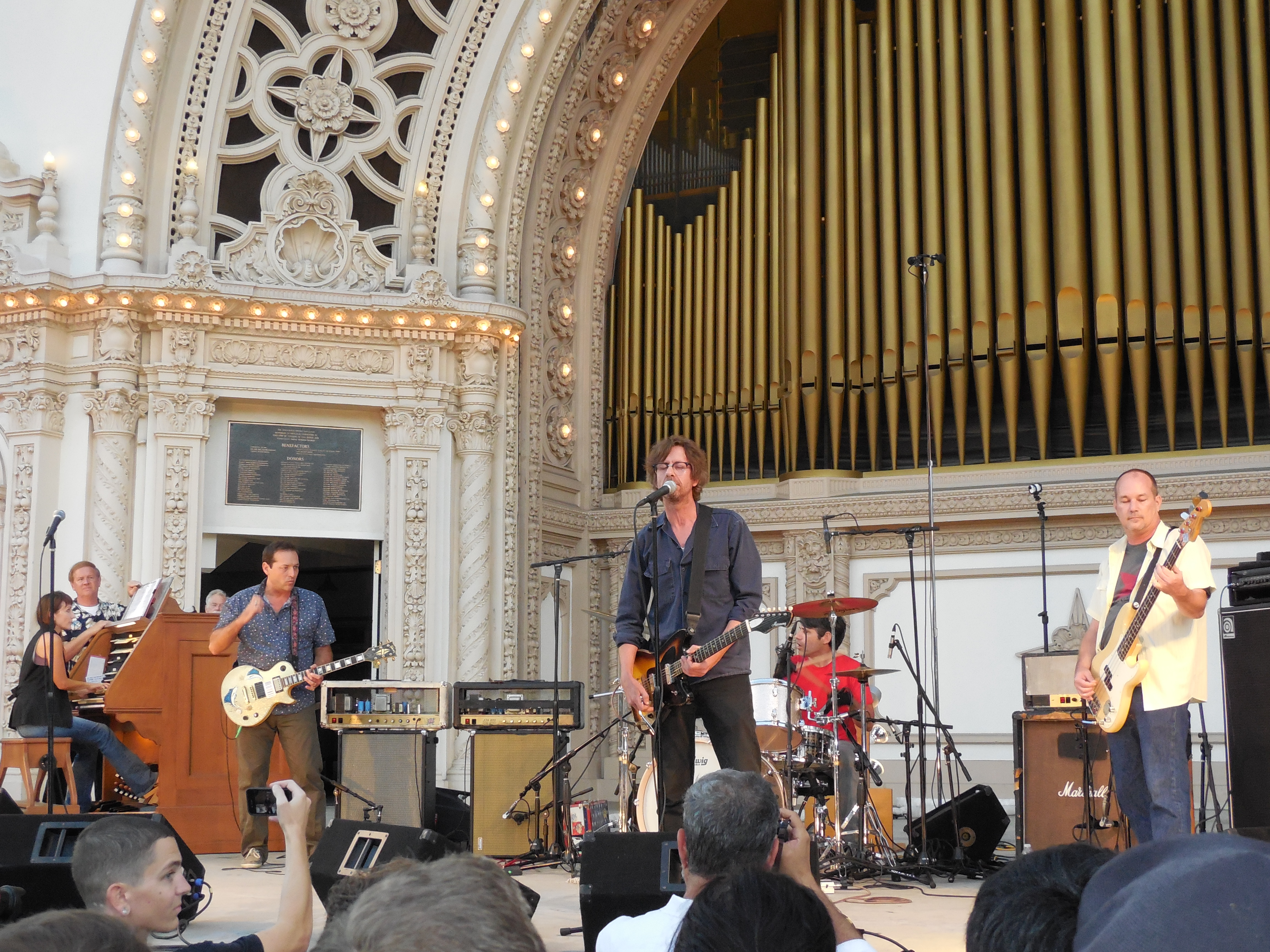 The band Drive Like Jehu performing August 31, 2014 at Spreckels Organ Pavilion in Balboa Park, San Diego, California, accompanied by San Diego Civic Organist Dr. Carol Williams. Left to right: Williams (organ), John Reis (guitar), Rick Froberg (guitar, vocals), Mark Trombino (drums), and Mike Kennedy (bass guitar).